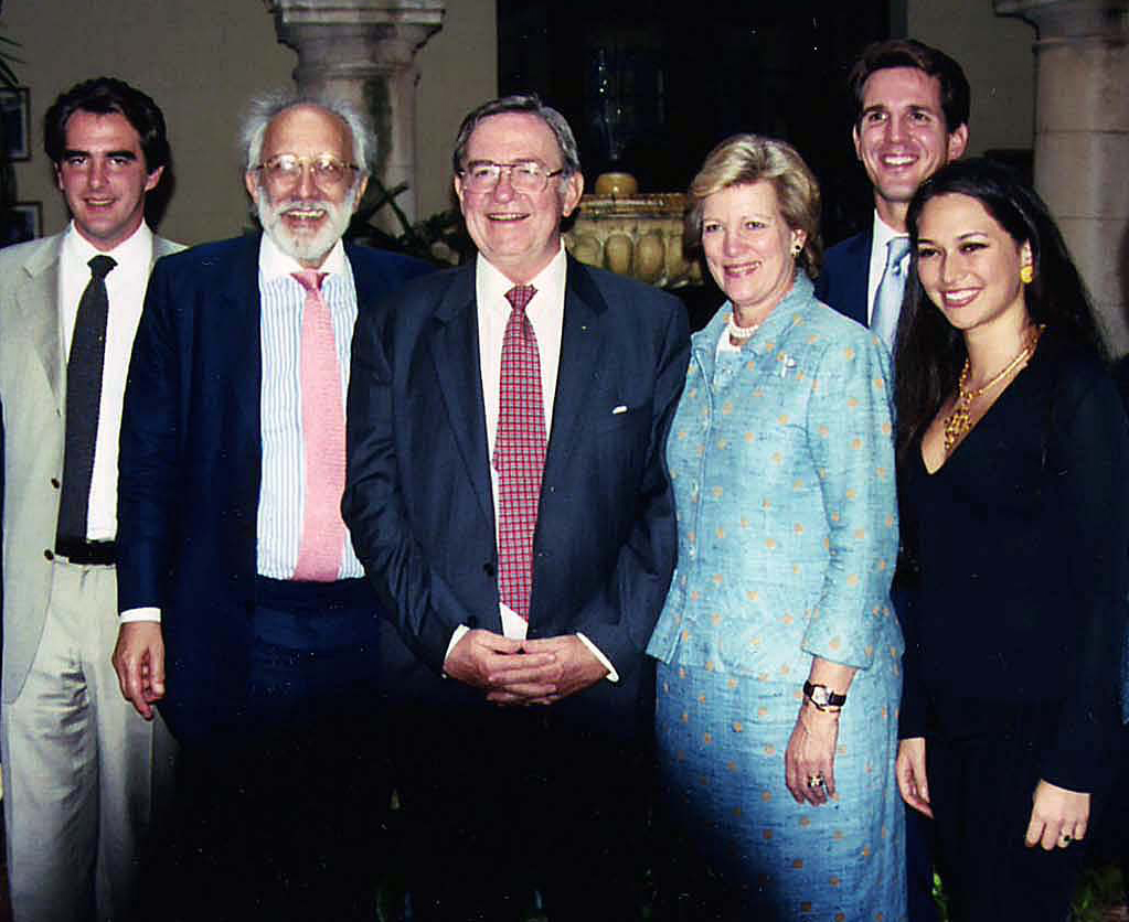 Anja Steinlechner with King Konstantin & Queen Anne-Marie of Greece and their two sons Prince Pavlos and Prince Nikolaos